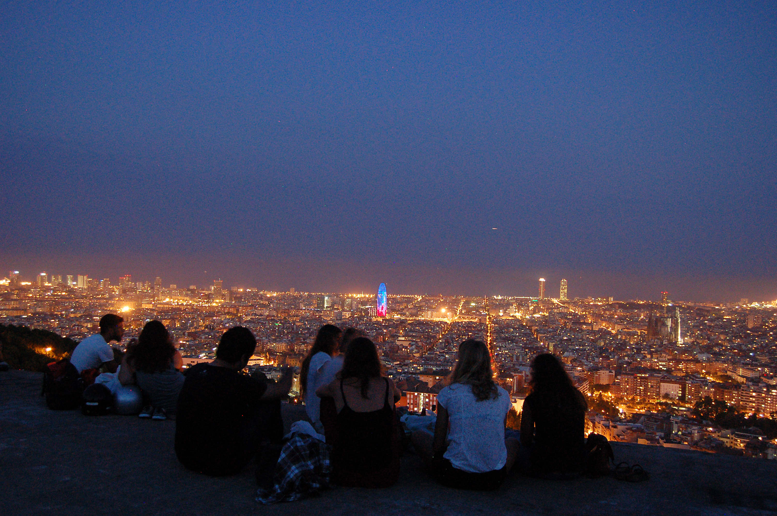 Anti-aircraft batteries at Turó de la Rovira. View from Barcelona